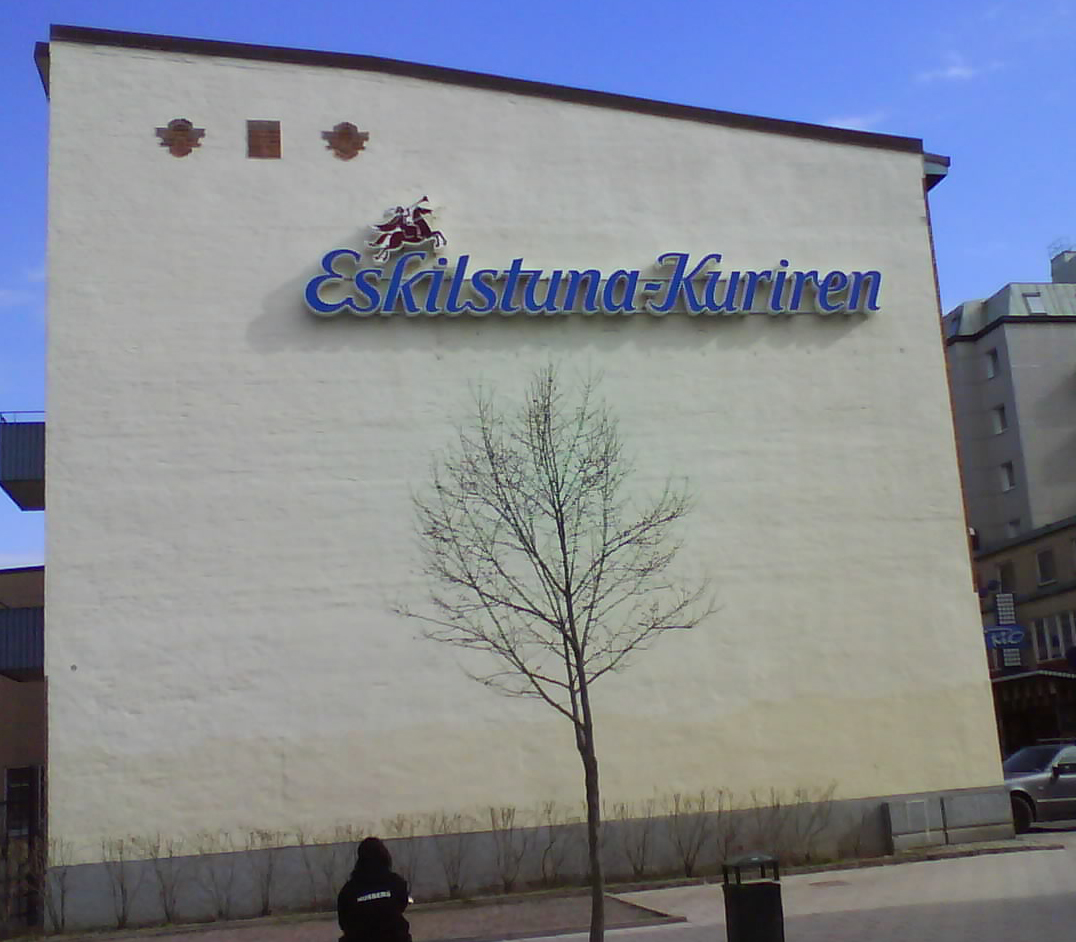 Local of Eskilstuna-Kuriren in Eskilstuna, seen from the side.